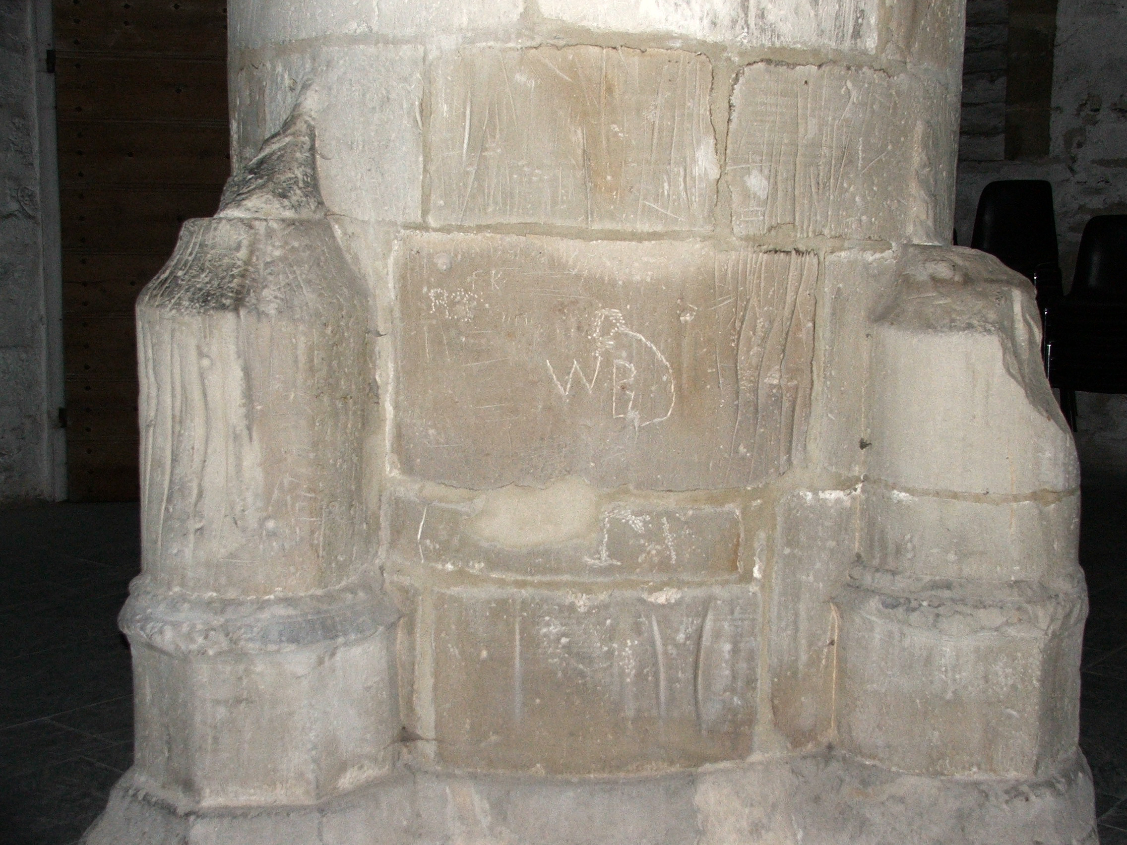 Propsteikirche St. Petrus und Andreas, Brilon, Germany. A room in the church tower. Column with traces of grinding ("Wetzrille").